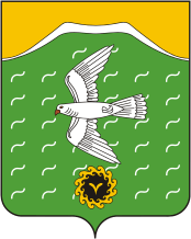 Ishimbai rayon (Bashkortostan), coat of arms